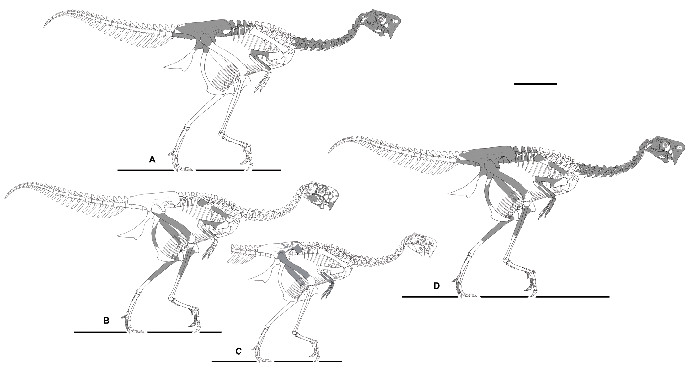 Skeletons of Nemegtomaia barsboldi specimens (known elements in grey). A, the holotype (MPC-D 100/2112); B, MPC-D 107/15 (the left side of the skull, left forelimb, pubis and toes are reversed and superimposed to the right side). C, MPC-D 107/16 (the left forelimb is reversed and superimposed to the right side). In D, the preserved elements of MPC-D 107/15 and 16 are scaled to and superimposed on the holotype (the skull depicted is that of the better preserved MPC-D 100/2112). Scale bar 20 cm.